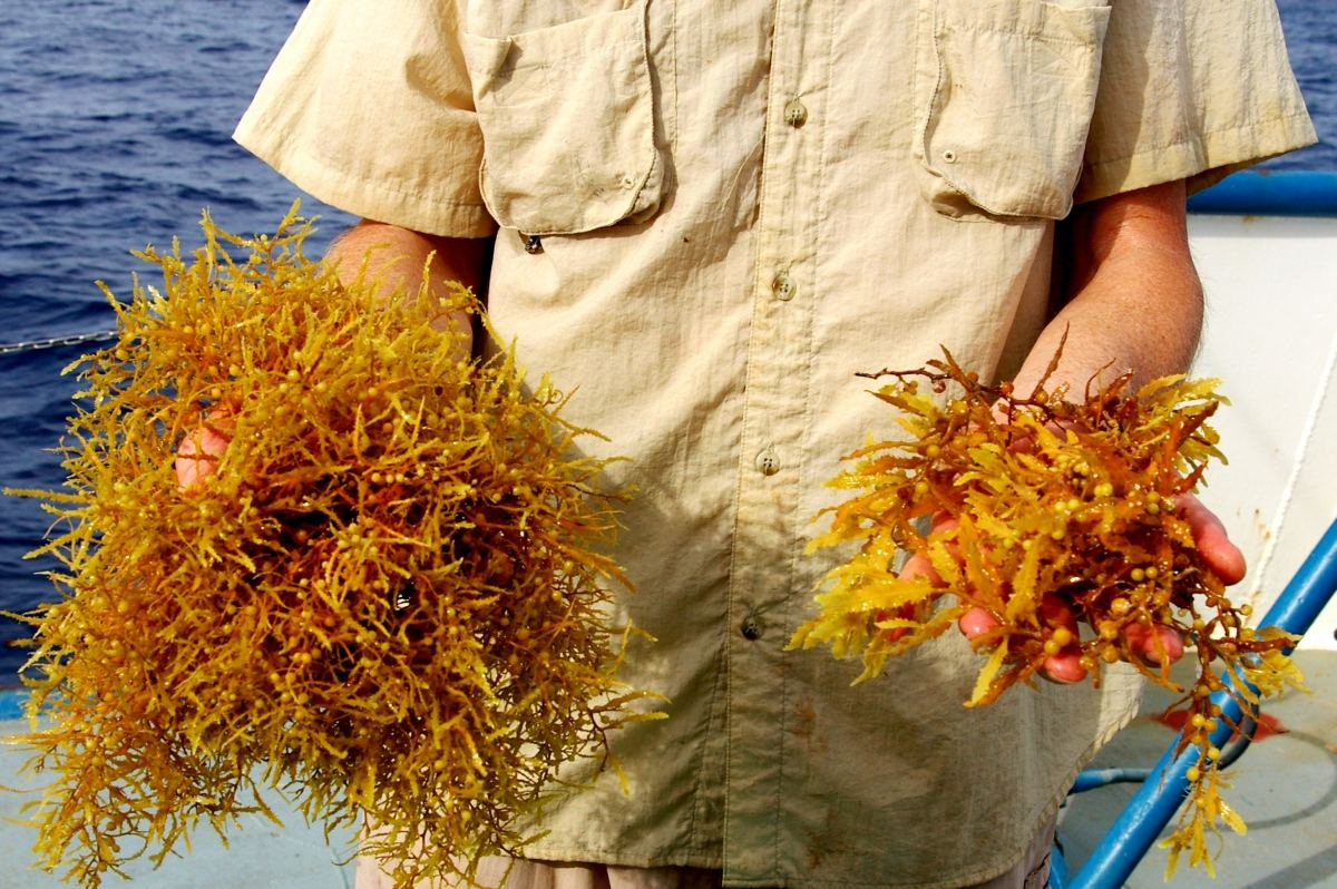 Two types of Sargassum. By GCRL